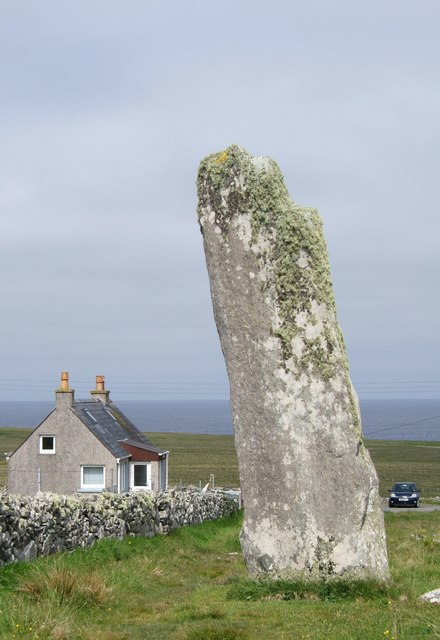 Clach an Truiseal